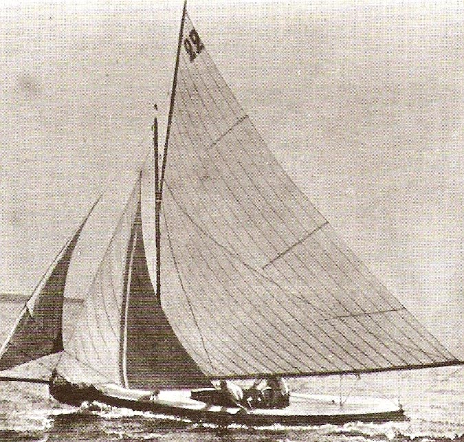 Winnerboat Lerina at the 1900 Olympic Games photography, reproduction, no restrictions on use